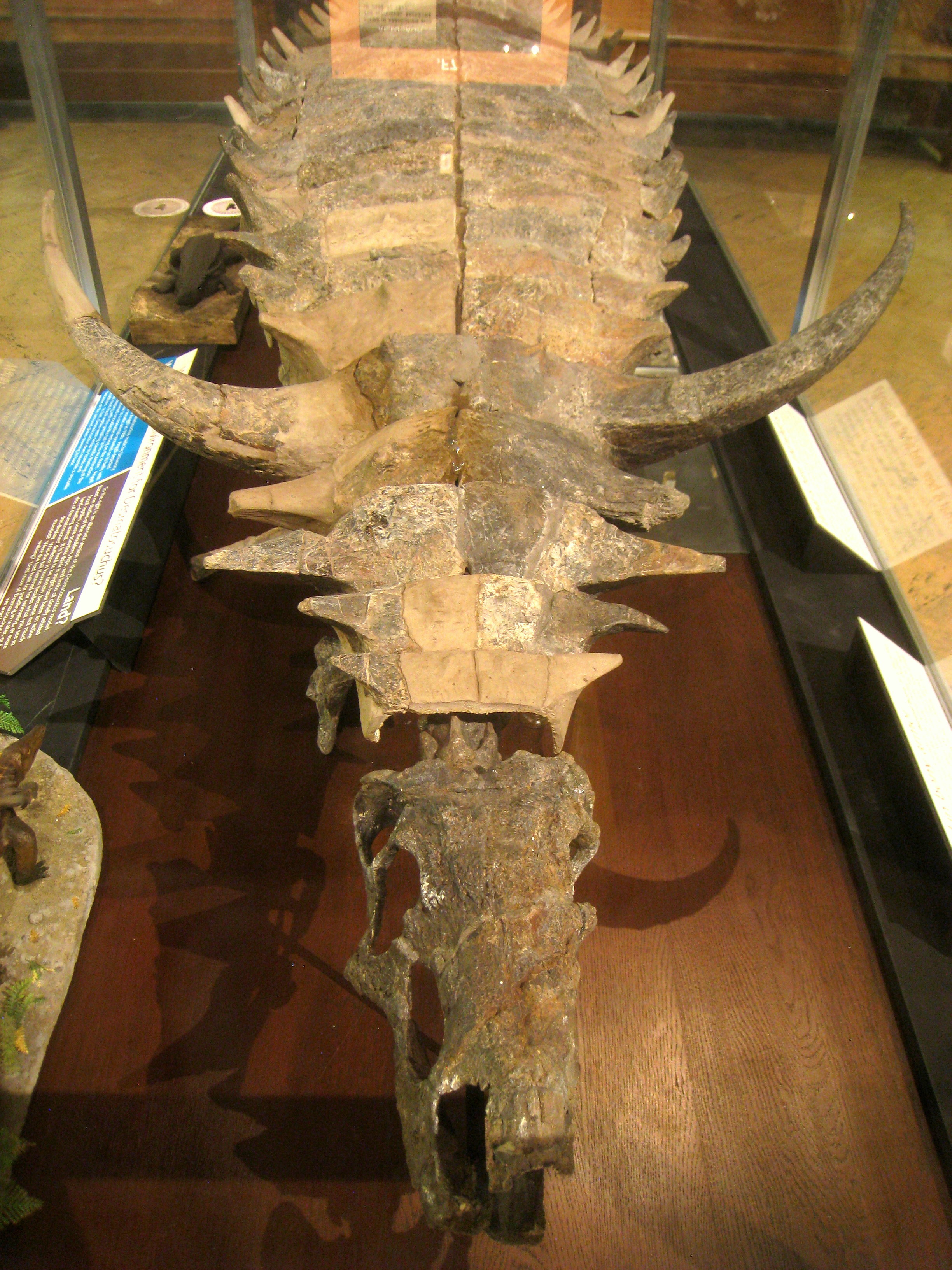 Desmatosuchus. Exhibit Museum of Natural History, University of Michigan, 1109 Geddes Avenue, Ann Arbor, Michigan, USA.